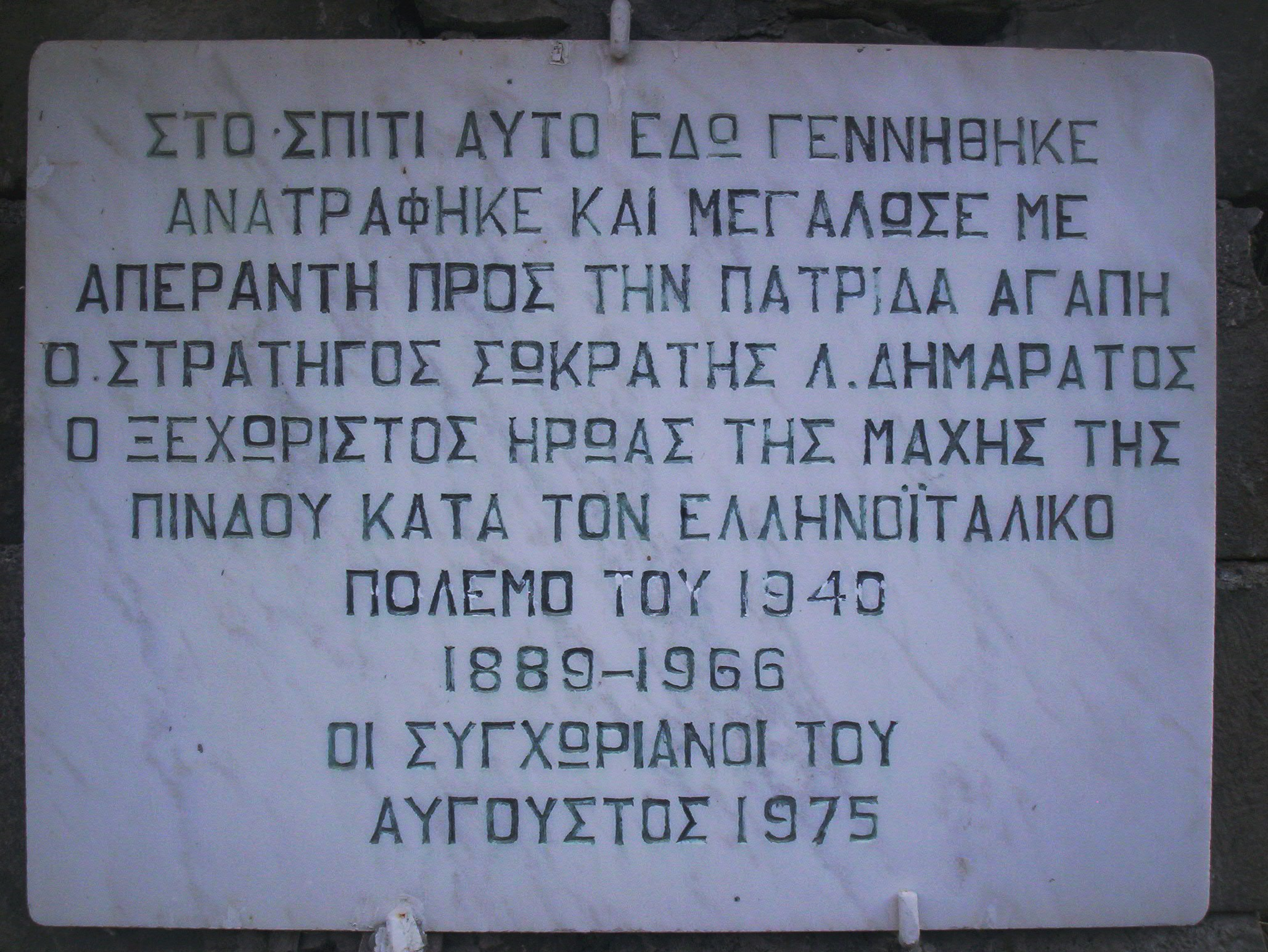 Memorial plaque for Sokratis Dimaratos outside his house, Vourbiani, 1975.